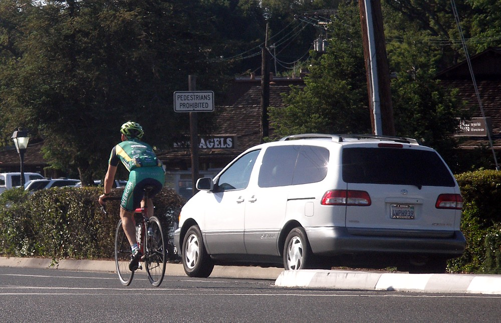 A bicyclist avoiding a minivan merging into traffic on Foothill Expressway in Los Altos. Riding bicycles on the expressway is both legal and popular in the U.S. state of California. The sign in the background only says "Pedestrians Prohibited." Photographed on May 16, 2006 by user Coolcaesar.